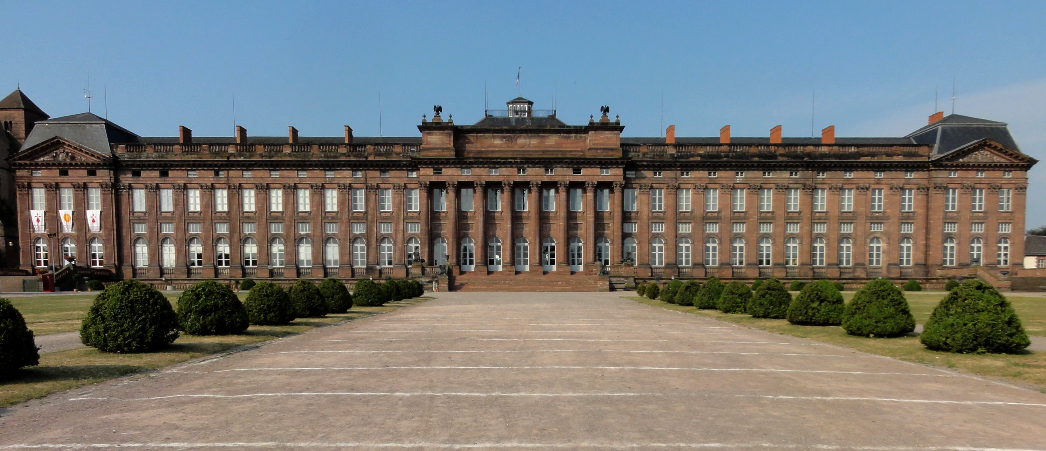 Alsace, Bas-Rhin, Saverne, Château des Rohan: It is indexed in the Base Mérimée, a database of architectural heritage maintained by the French Ministry of Culture, under the references PA00084953 and IA00055456.